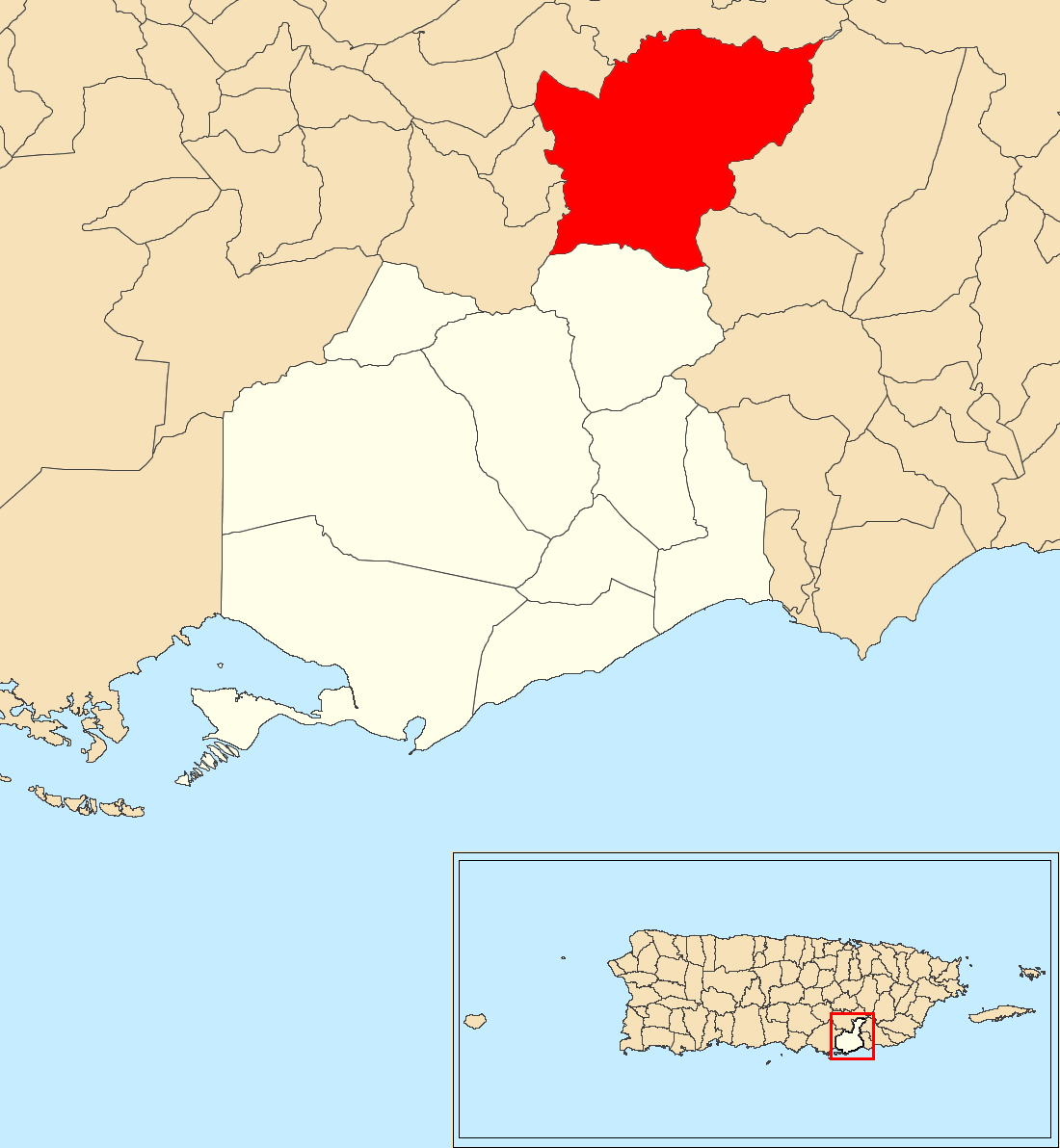 Carite, Guayama, Puerto Rico locator map